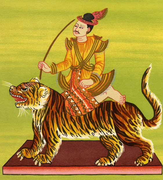 Maung Po Tu nat (spirit), th in the official pantheon of Burmese nats